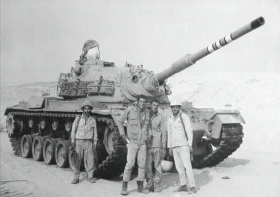 An intact Israeli M48 captured by Egyptian forces during the Yom Kippur War.